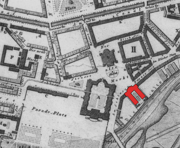 Map of Potsdam (detail), ca. 1850